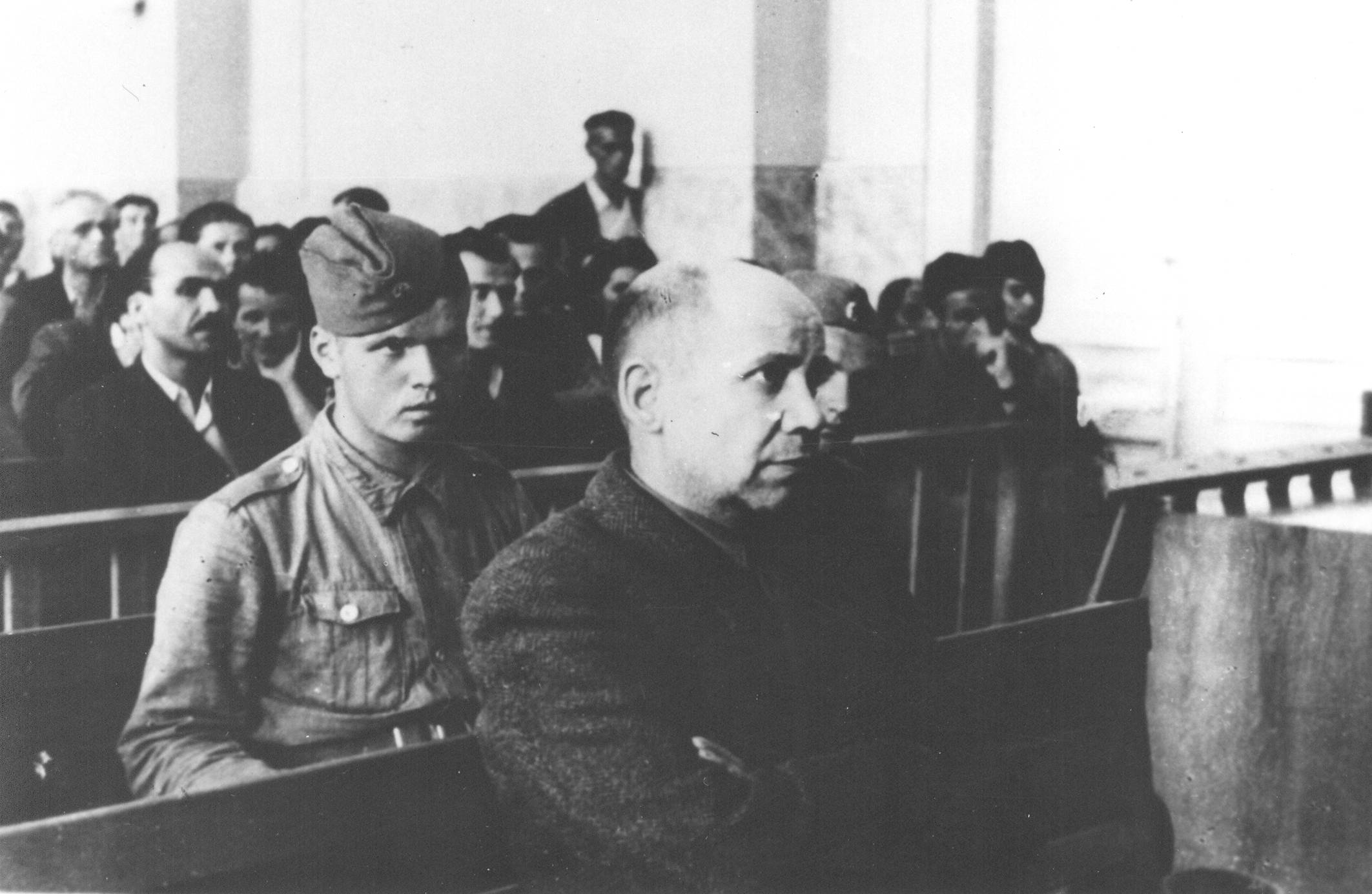 Trial of Jezdimir Dangic in Sarajevo 1941